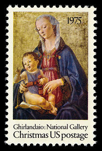 The first U.S. non-denominated postage stamp, 1975, 10c, Christmas Madonna and Child, Scott #1579.This Christmas issue shows a detail of "The Madonna and Child," painted by Italian artist Domenico di Tommaso Ghirlandaio. Because postage rates for late 1975 were uncertain, both Christmas stamps were issued with no denomination; they were the first non-denominated U.S. stamps.